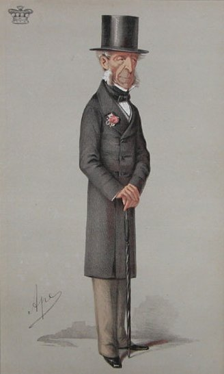 Caricature of Robert Grosvenor, 1st Baron Ebury. Caption reads "A common-prayer reformer'.